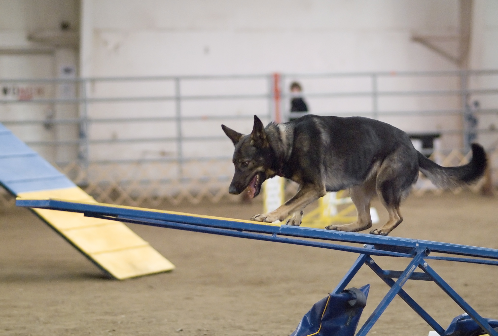 A German Shepherd Dog on a teeter-totter at an agility competition.